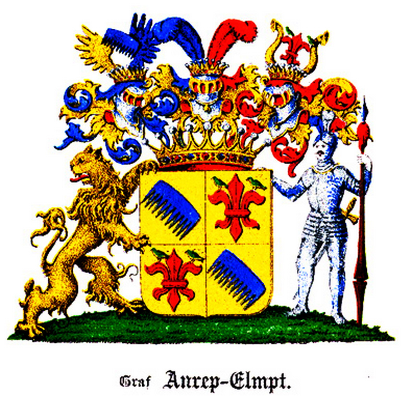 Coat of arms of Anrep-Elmpt family